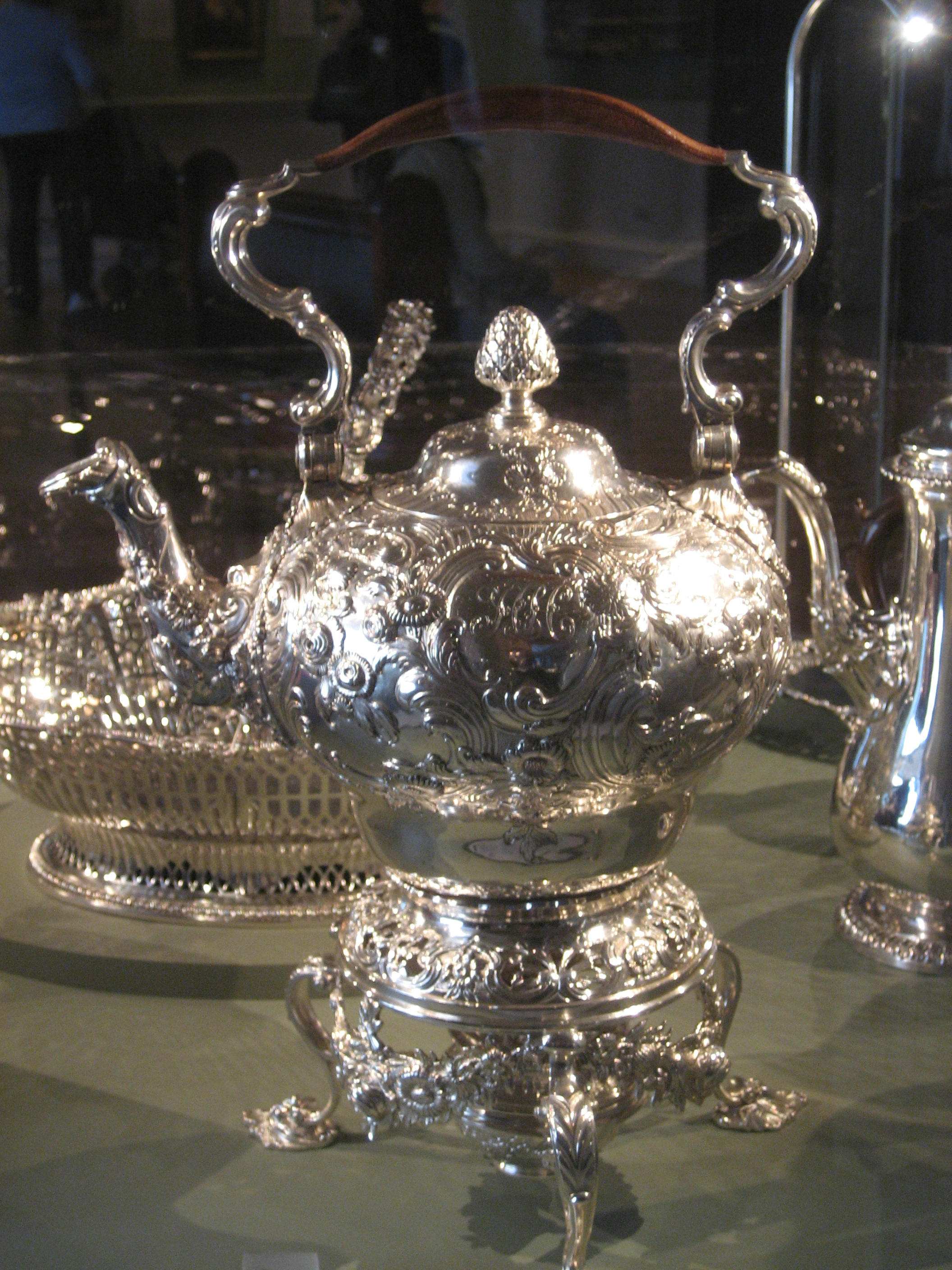 Tea kettle with lamp and stand. Samuel Courtauld, 1748/49. Embossed Sterling silver. Arms of Sir James Hall and his wife Helen Dunbar. Courtauld Institute of Art, Somerset House, London, United Kingdom